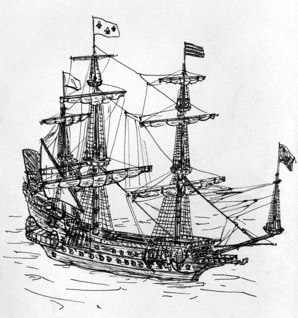 La Couronne, 1636